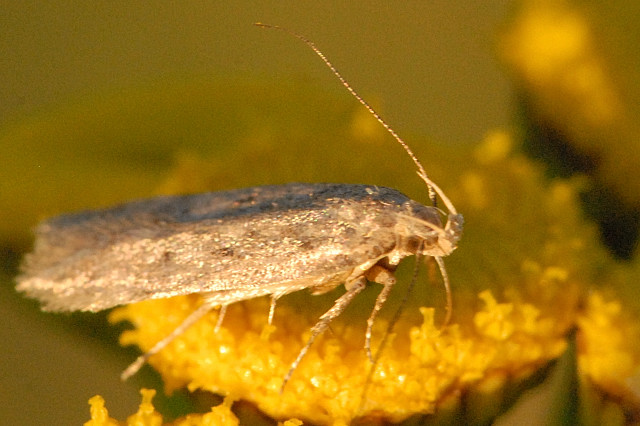 Bryotropha terrella from Commanster, Belgian High Ardennes .